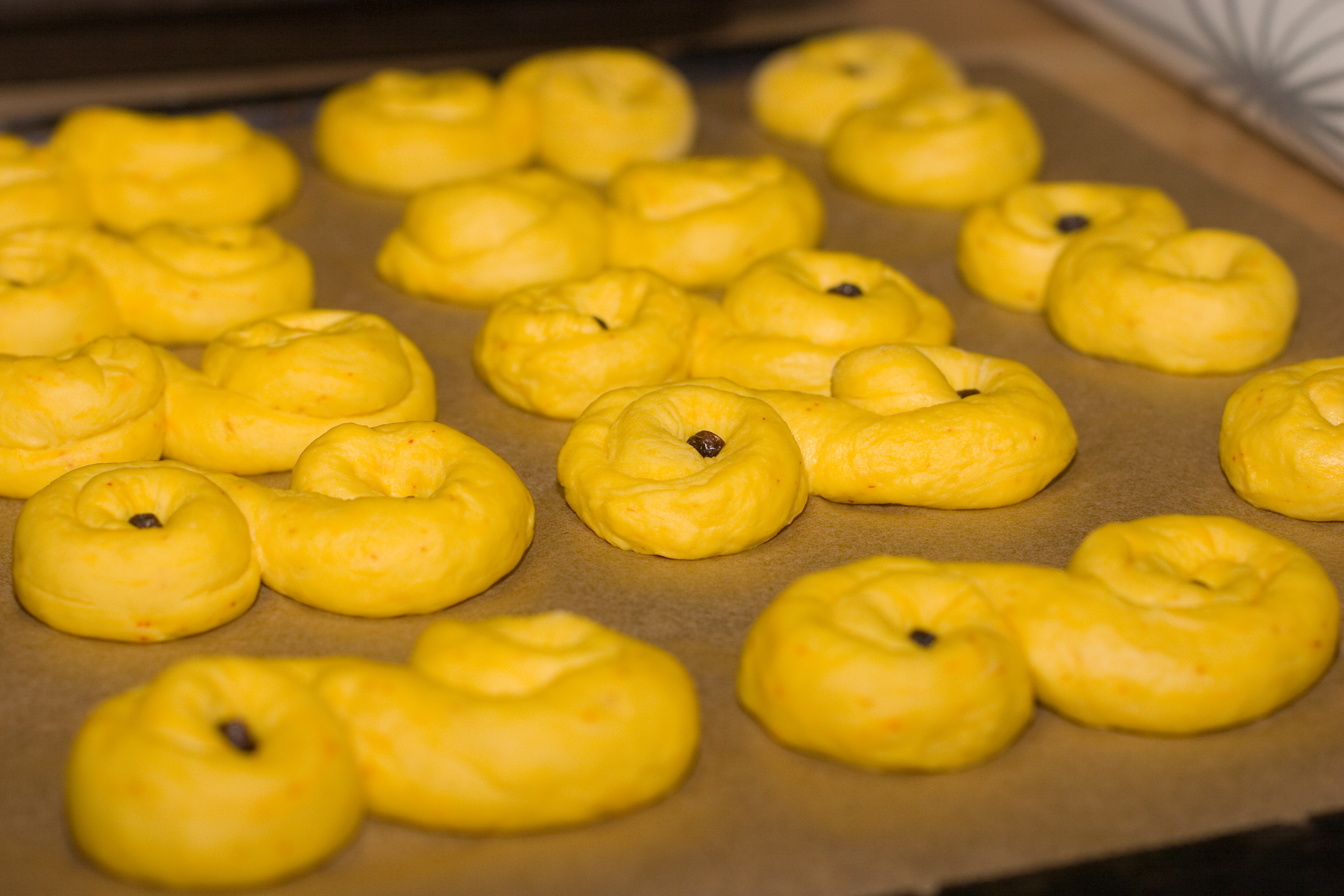 Baking Saffron buns